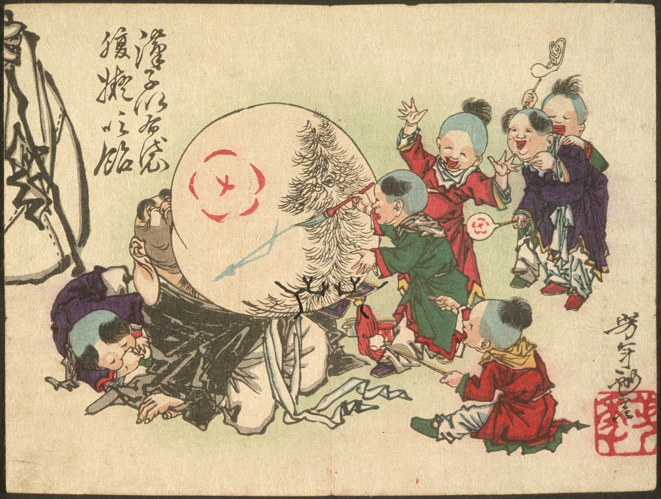 Japan, 5/1882 Series: Sketches by Yoshitoshi Prints; woodcuts Color woodblock print Herbert R. Cole Collection (M.84.31.350) Japanese Art